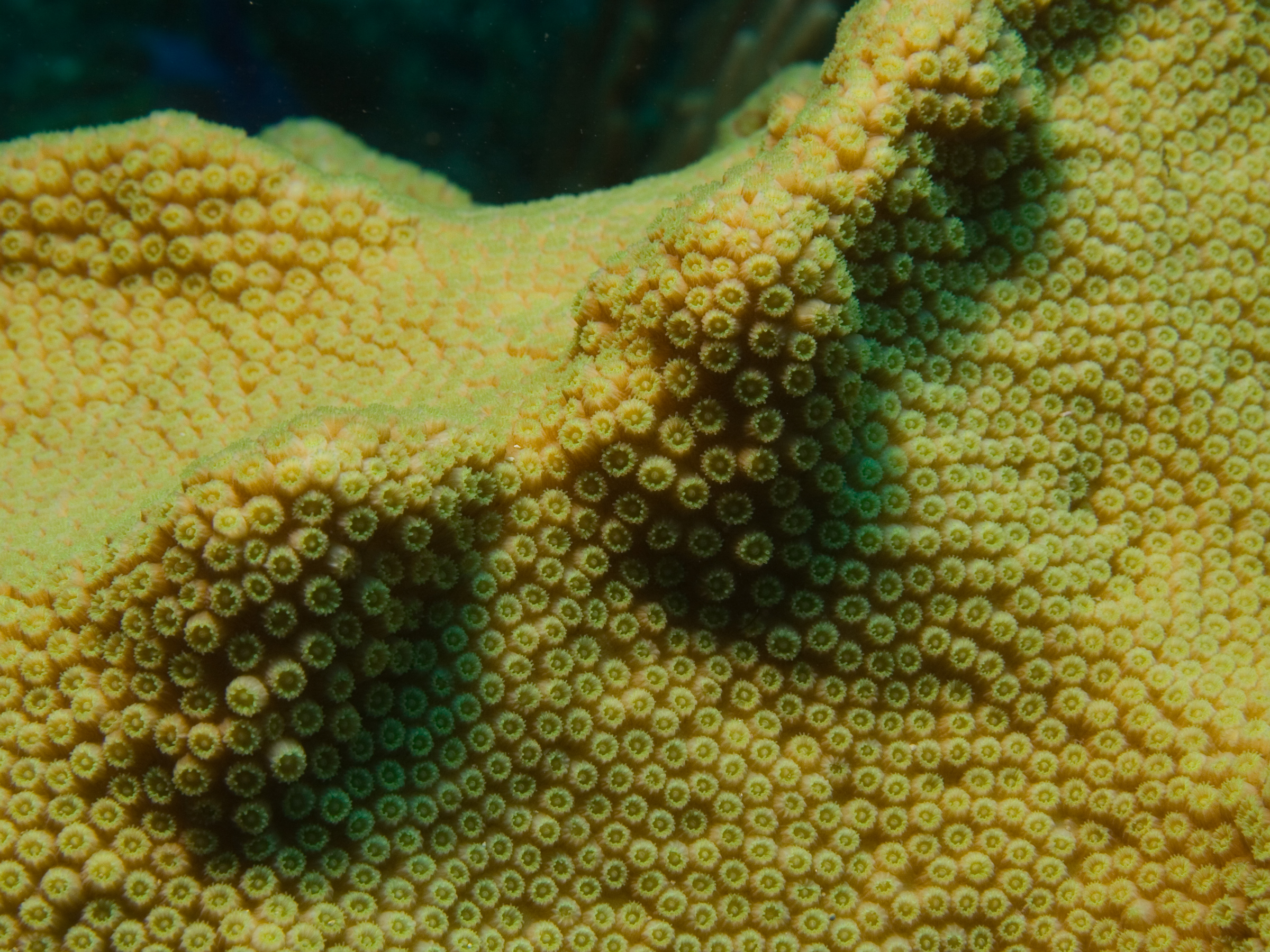 Solenastrea hyades (Knobby Star Coral)